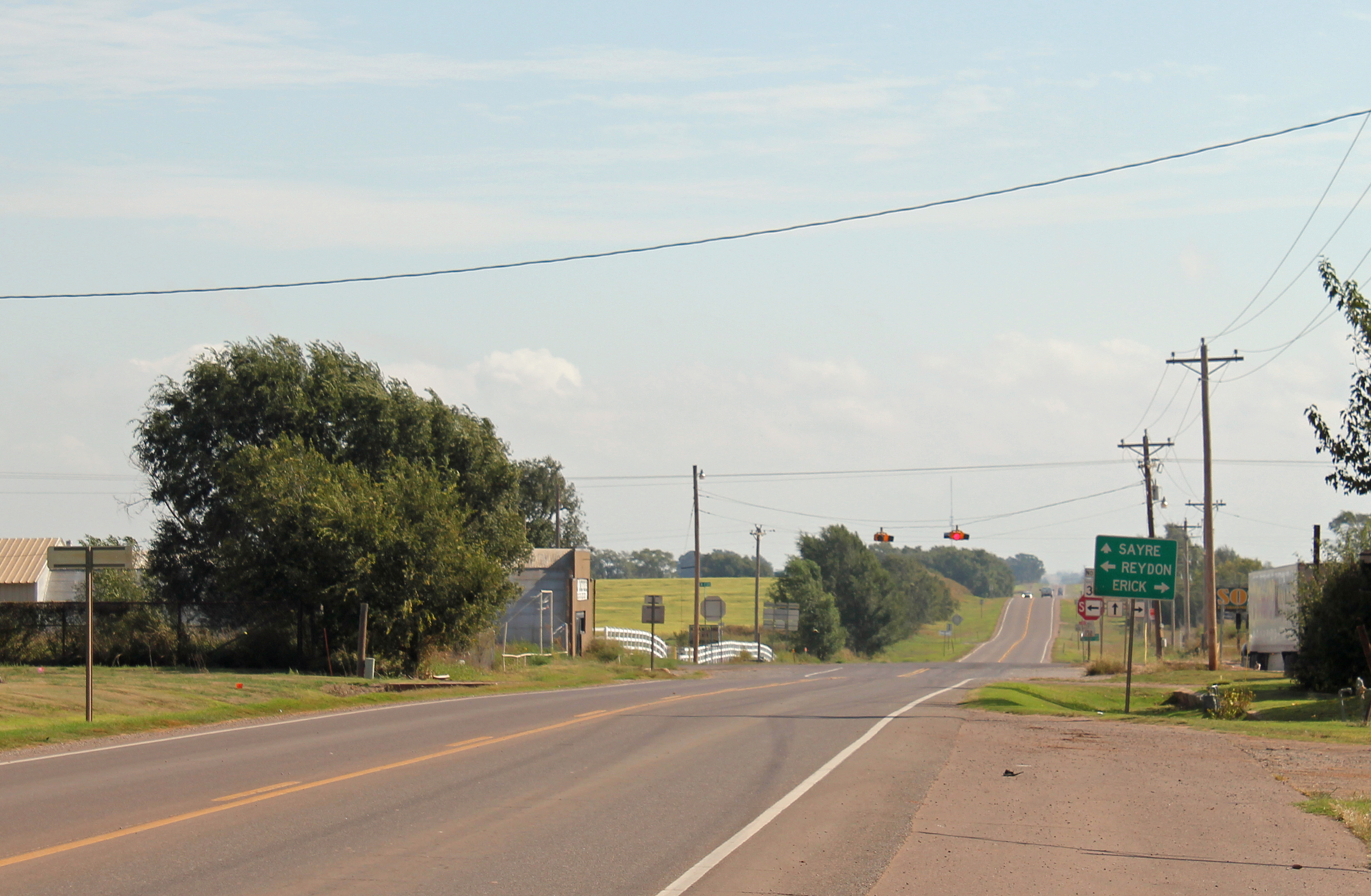 Sweetwater, Oklahoma. The intersection in the picture is the intersection of Oklahoma state highways 152 and 30. The photographer is on Highway 152 looking east.